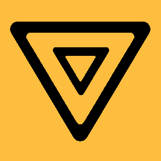 Icon to represent The Amazing Race yields.